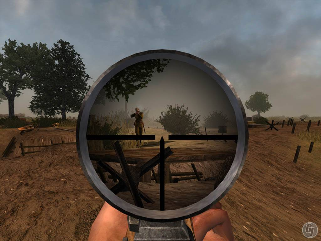 Red Orchestra sniper